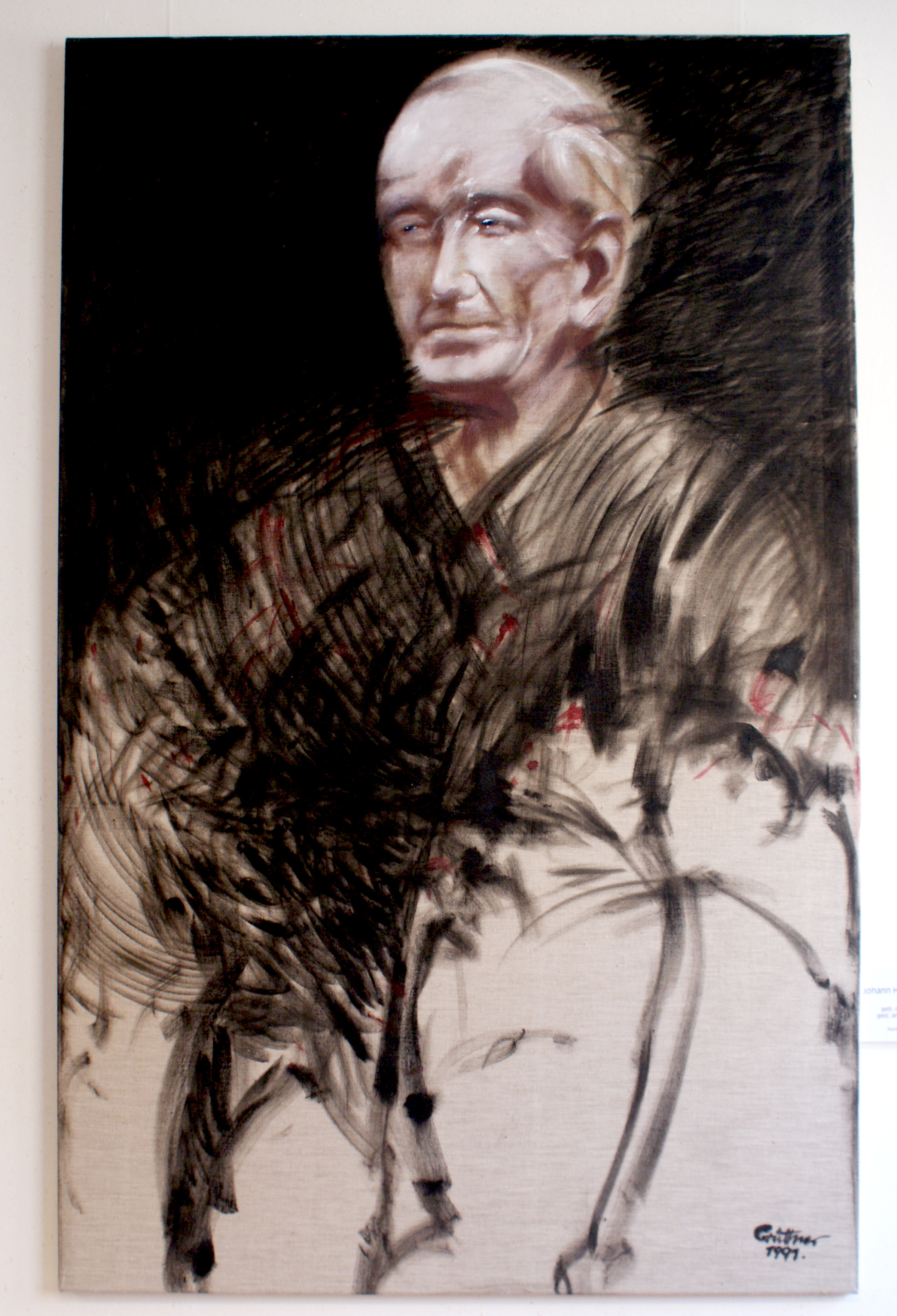 Das Porträt von Peter Suhrkamp, gemalt von Frank Grüttner